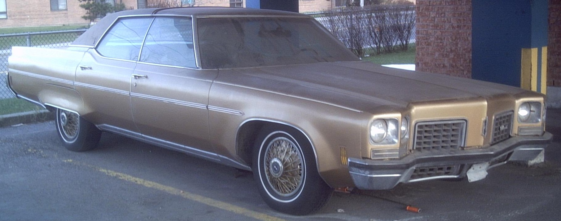 1972 Oldsmobile 98 photographed in Montreal, Quebec, Canada.